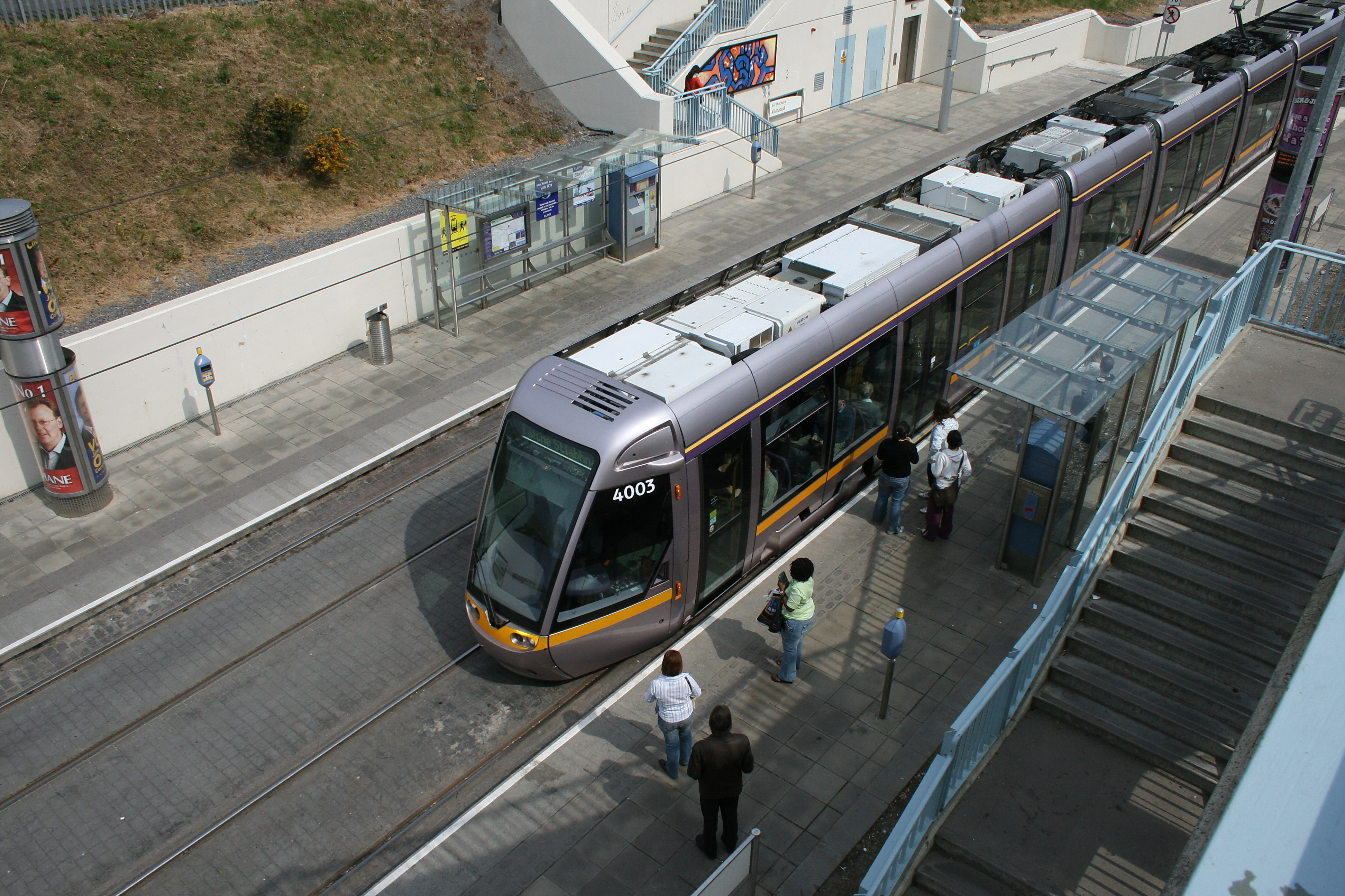 Kilmacud Luas halt